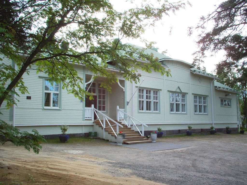 Oulunsuun pirtti in Oulu, Finland